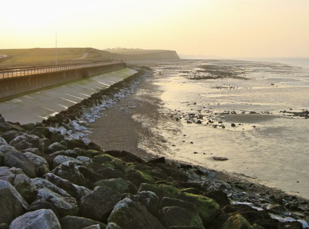 Looking west from below the ruined church of St Mary's, Reculver. Coastal defences built in the 1990s include boulders on the shoreline and a short length of sea wall. The cliffs beyond are eroding rapidly, at about 5 feet (2 m) per year. The centre of Reculver village was approximately centre-right in the photograph, until the late 18th century.